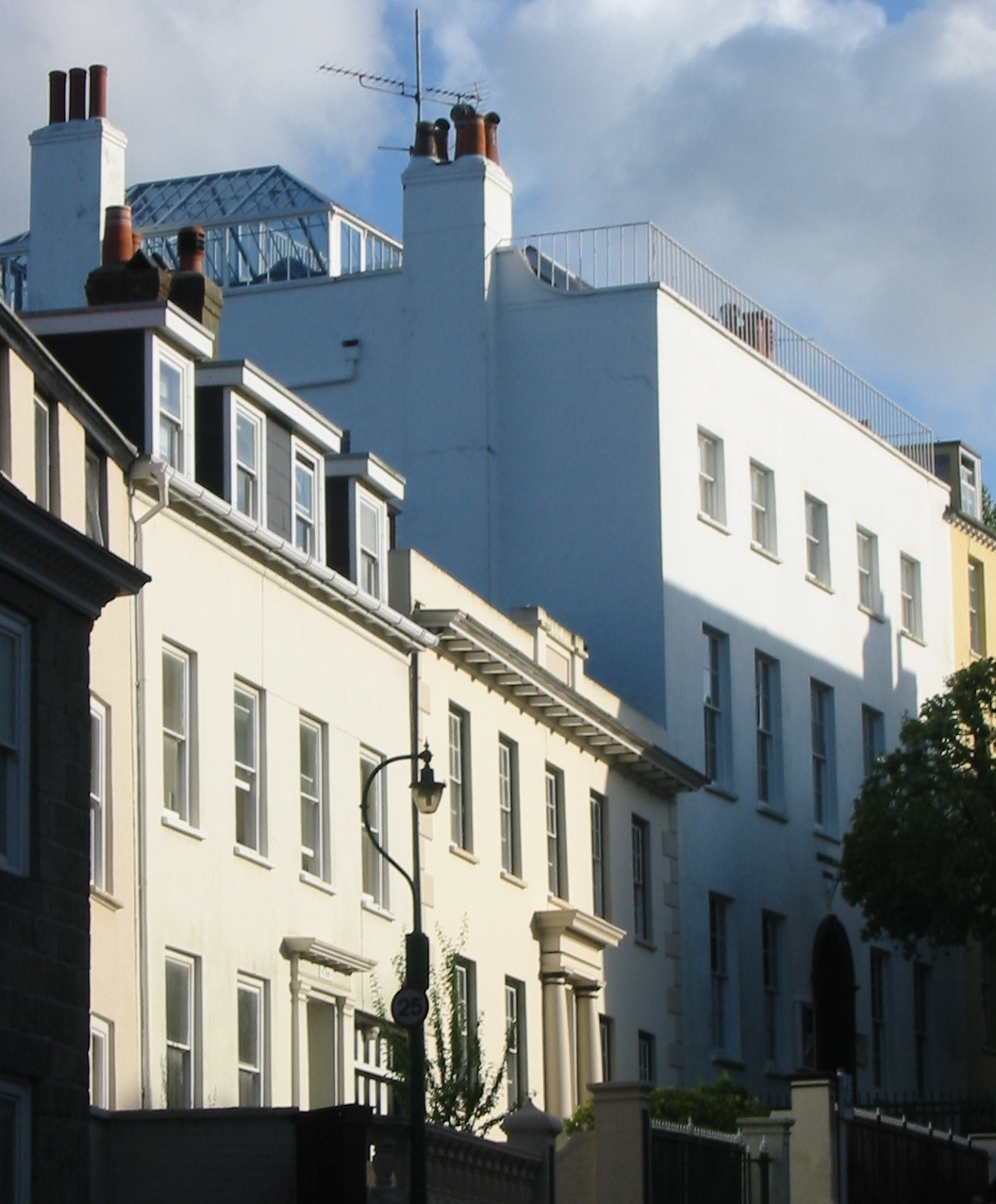 Hauteville House, the one with the tree outside, Victor Hugo's home in exile in Guernsey